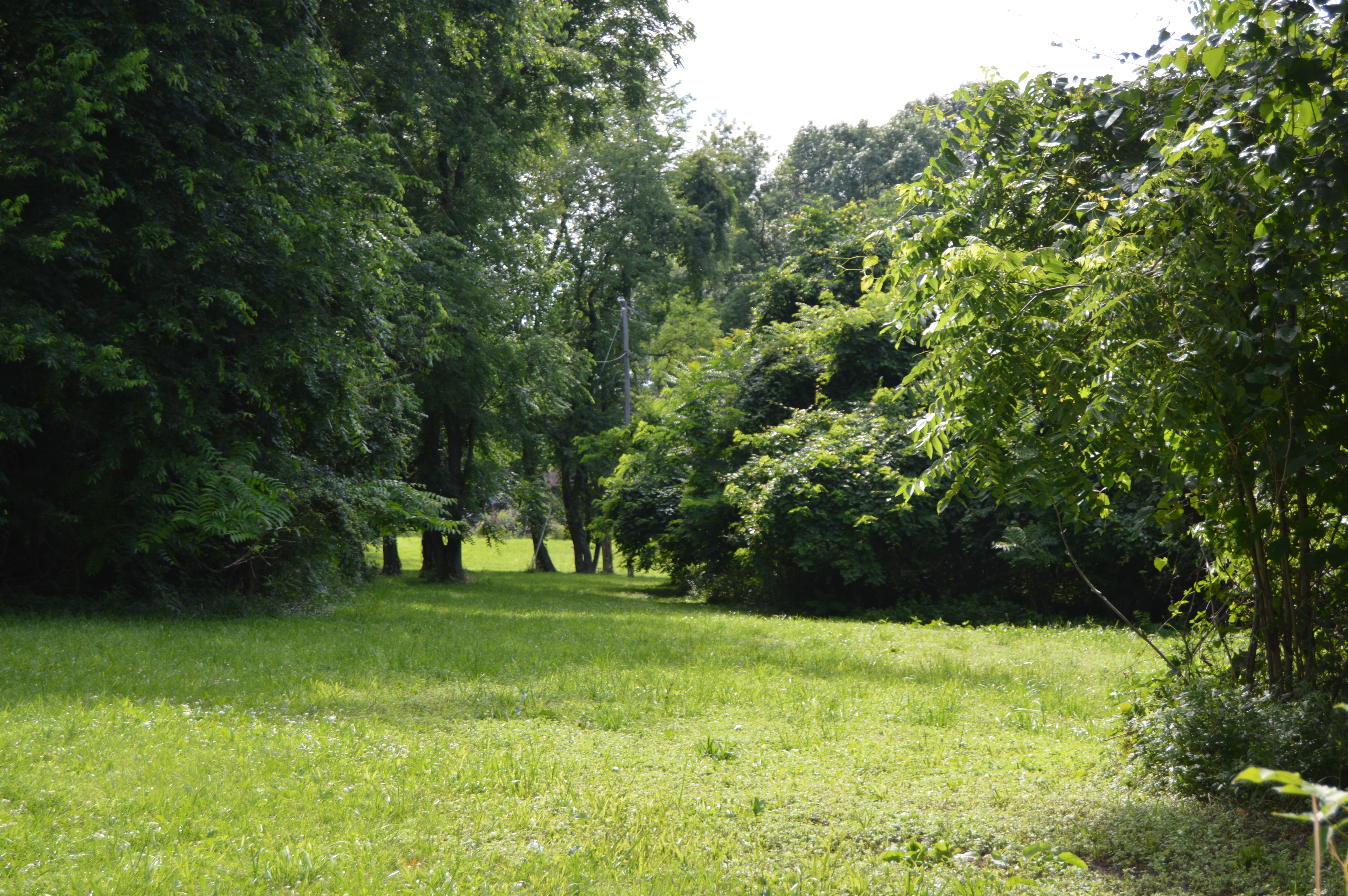 Overview of the Potomac Creek Site, located near the end of Indian Point Road in eastern Stafford County, Virginia, United States. The site is an important archaeological site and listed on the National Register of Historic Places.